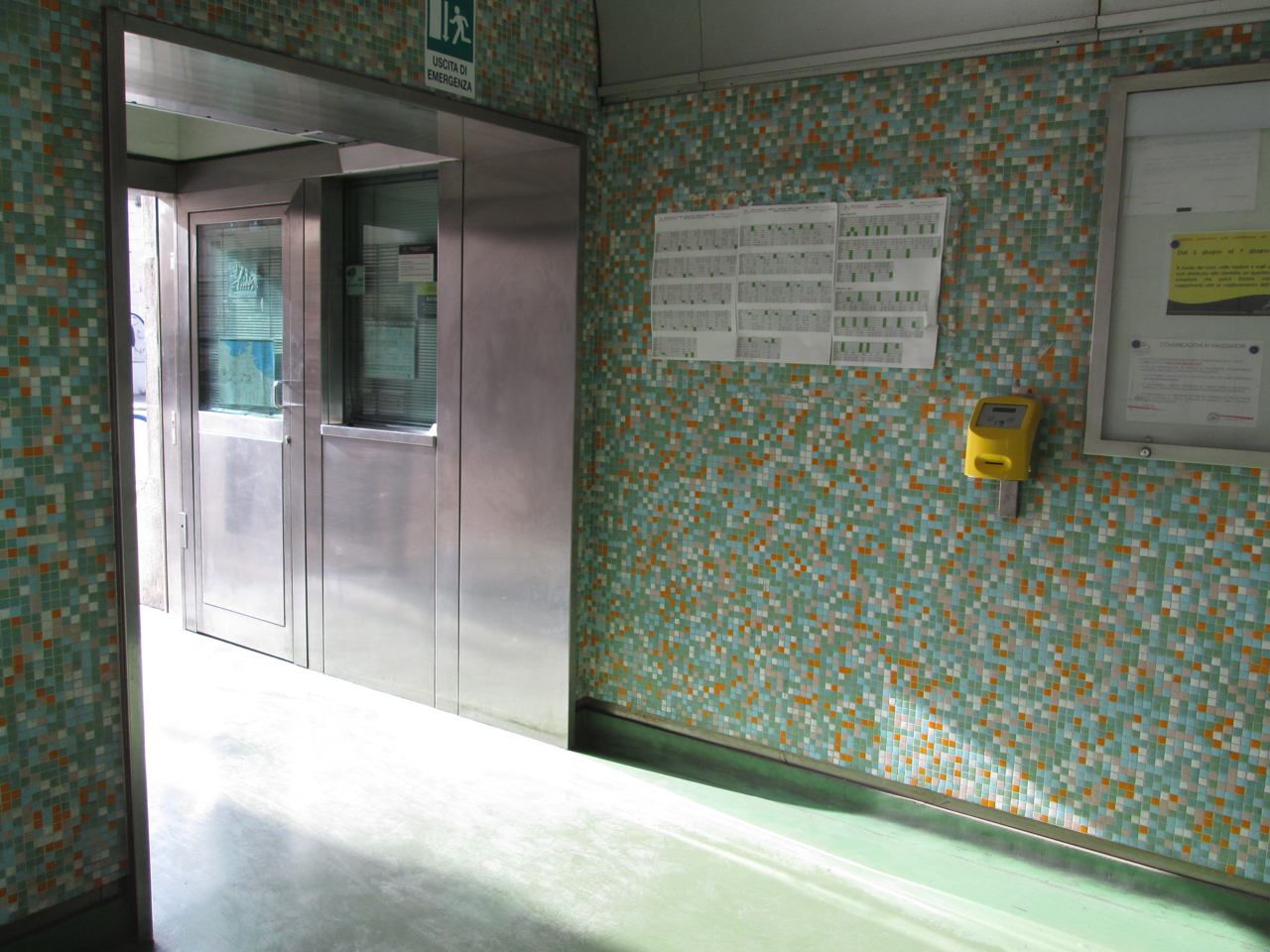 Entrance/Exit to Quintino Sella Station. Ticket puncher is seen attached to wall.